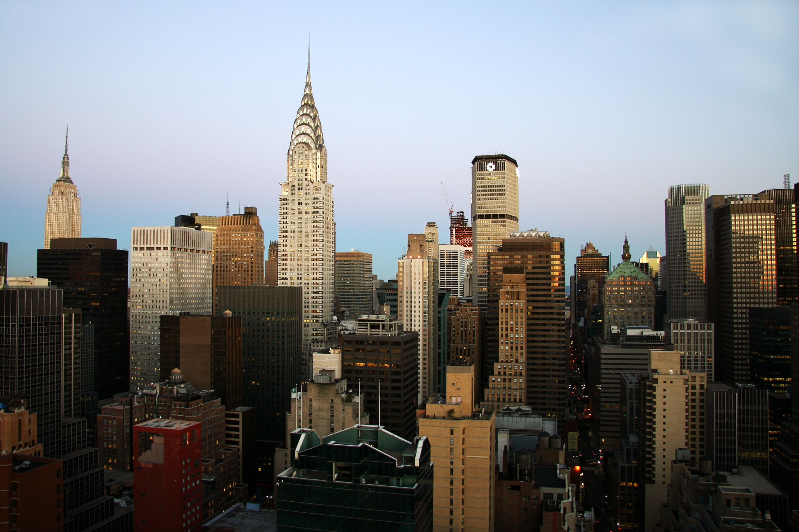 Manhattan, New York City at on early morning